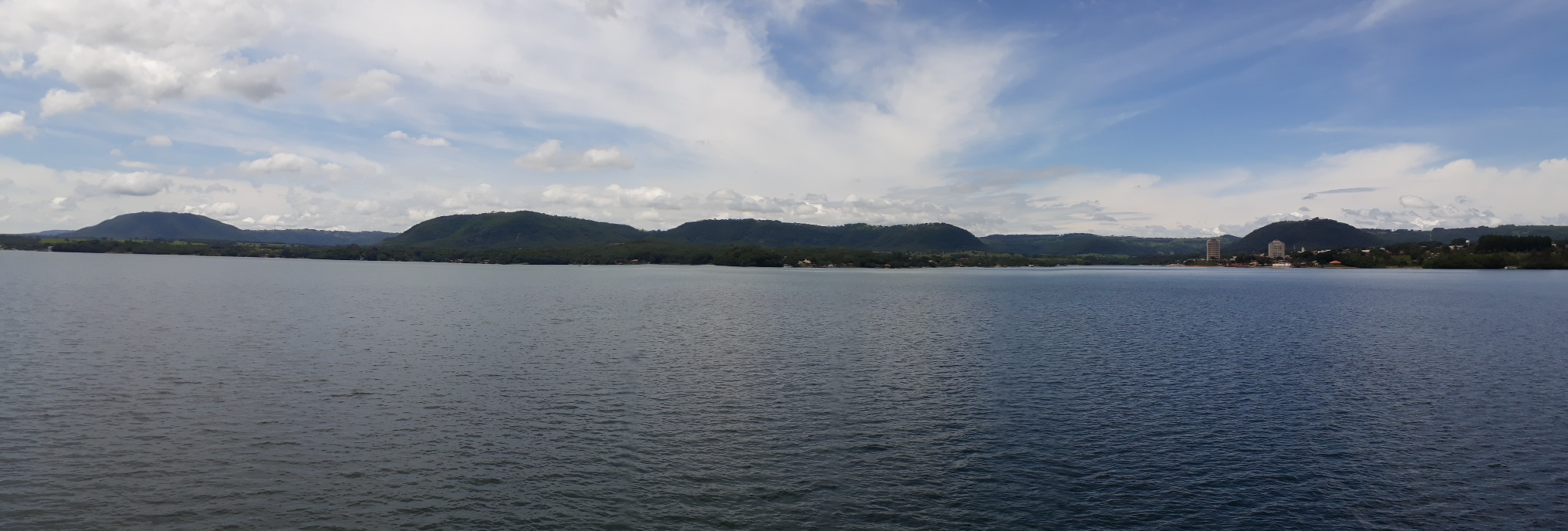 Panorama of the Jaguara Dam and the city of Rifaina, in the state of São Paulo